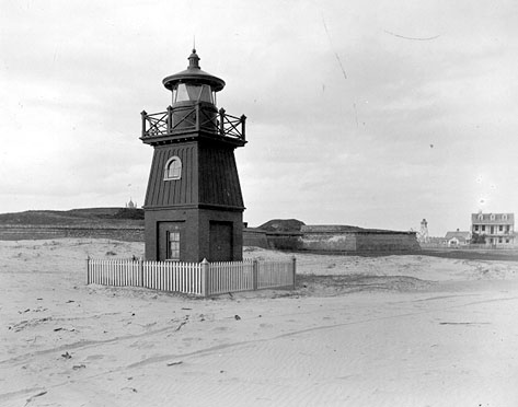 "Sullivan's Island, S.C. W. Range - From Front Beacon. Nov. 5 - 1885."; National Archives #26-LG-30-12; 1885; photographer unknown. Note rear range tower behind the house on the right and to the right of the fort's wall. This image or file is a work of a United States Coast Guard service personnel or employee, taken or made as part of that person's official duties. As a work of the U.S. federal government, the image or file is in the public domain (17 U.S.C. § 101 and § 105, USCG main privacy policy and specific privacy policy for its imagery server).